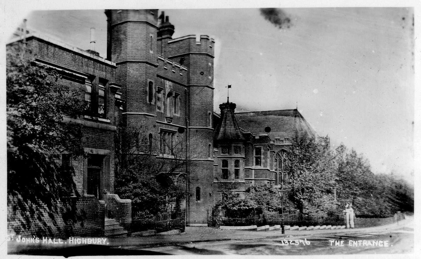 St John's Hall, Highbury, formerly the London School of Divinity, Highbury (its history is described here).